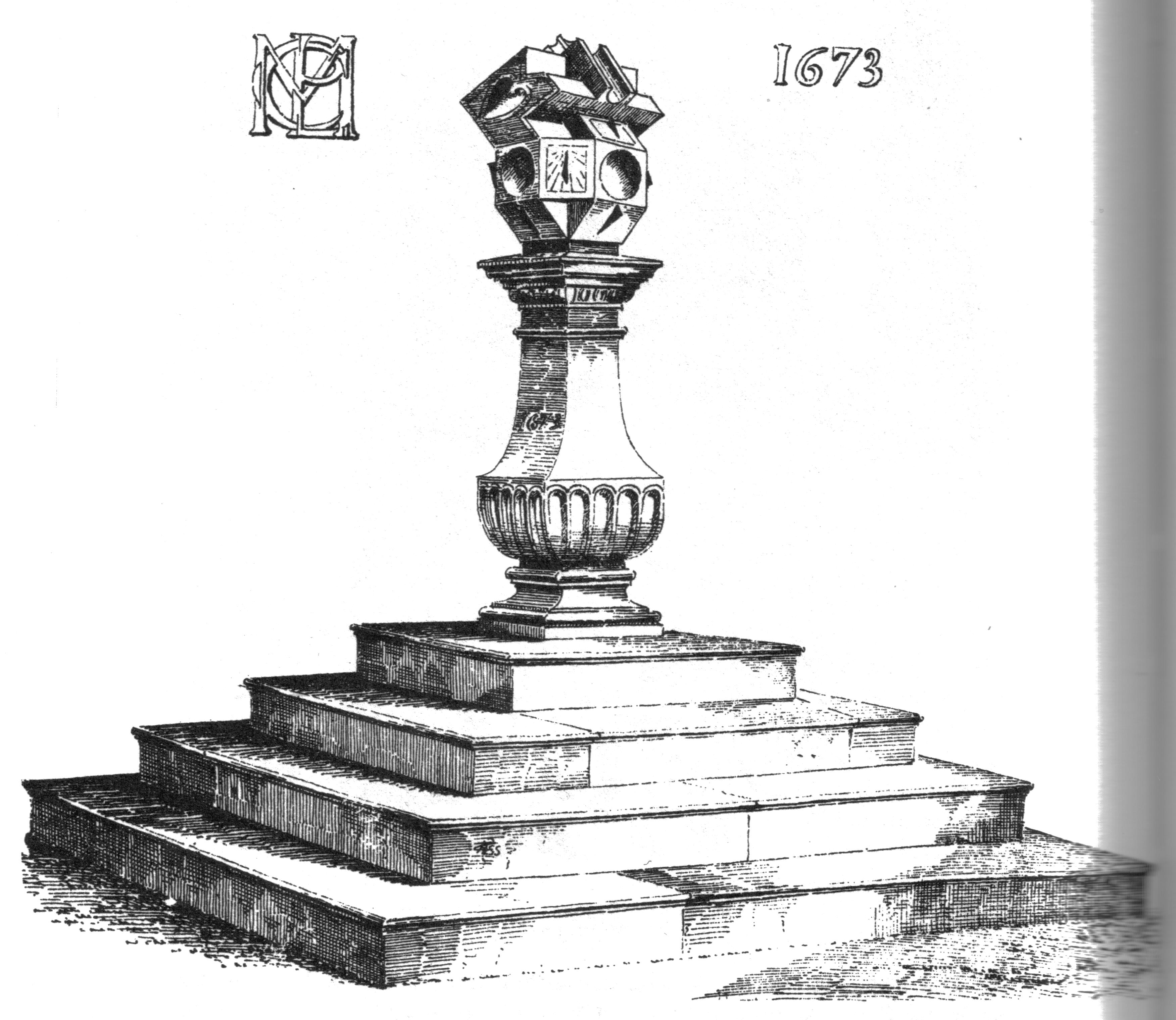 Ladyland House sundial, Kilbirnie, Ayrshire, Scotland